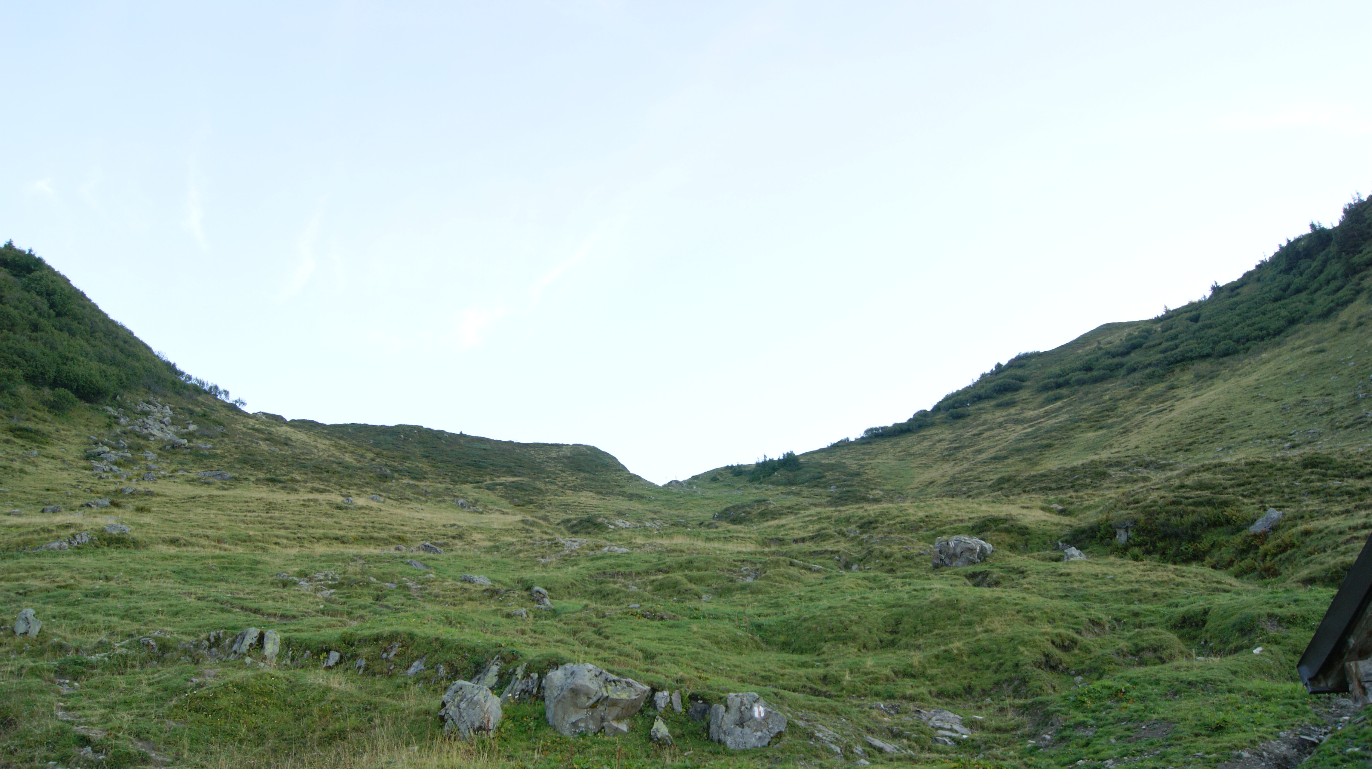 The "Fuerkele" (meaning: small ridge / small pass, 1811 masl), with the transition to the Alpe Suens. The ascent to the Portlakopf (1905 masl) on the right. Photographed from the Alp Portla in Damuels, Vorarlberg, Austria at 1720 masl.